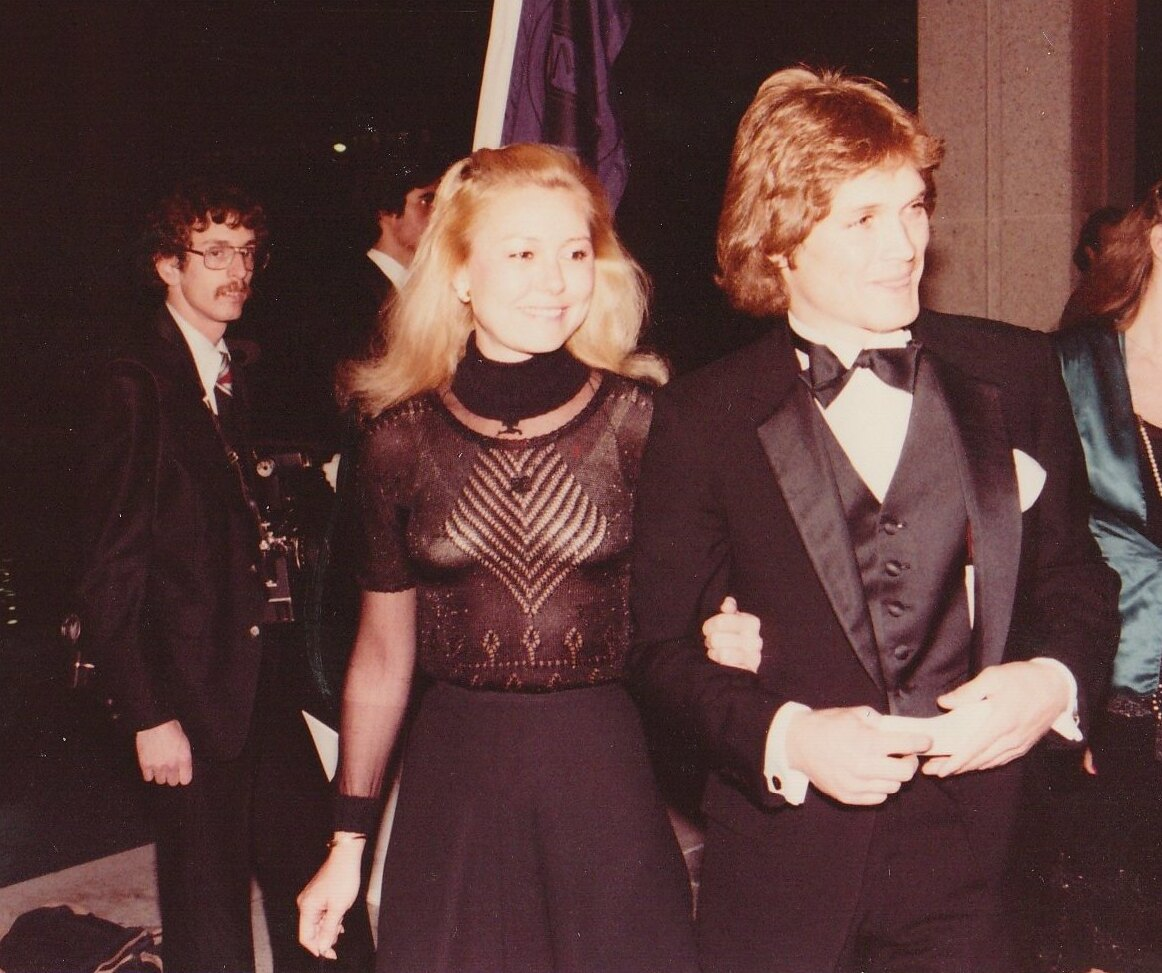 Andrew Stevens at the Filmex Tribute to Elizabeth Taylor, Dorothy Chandler Pavilion, November 1981. NOTE: Permission granted to copy, publish, broadcast or post any of my photos, but please credit "photo by Alan Light" if you can. Thanks.